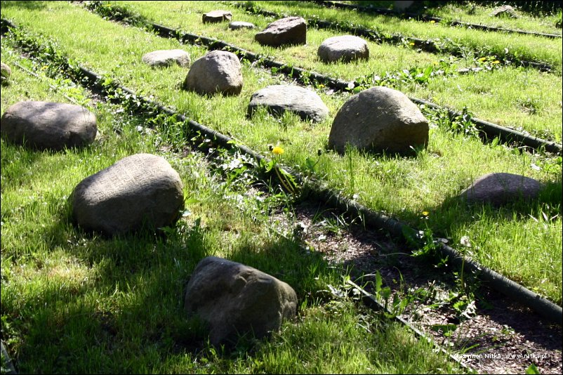 Cemetery in Cyganek, Poland